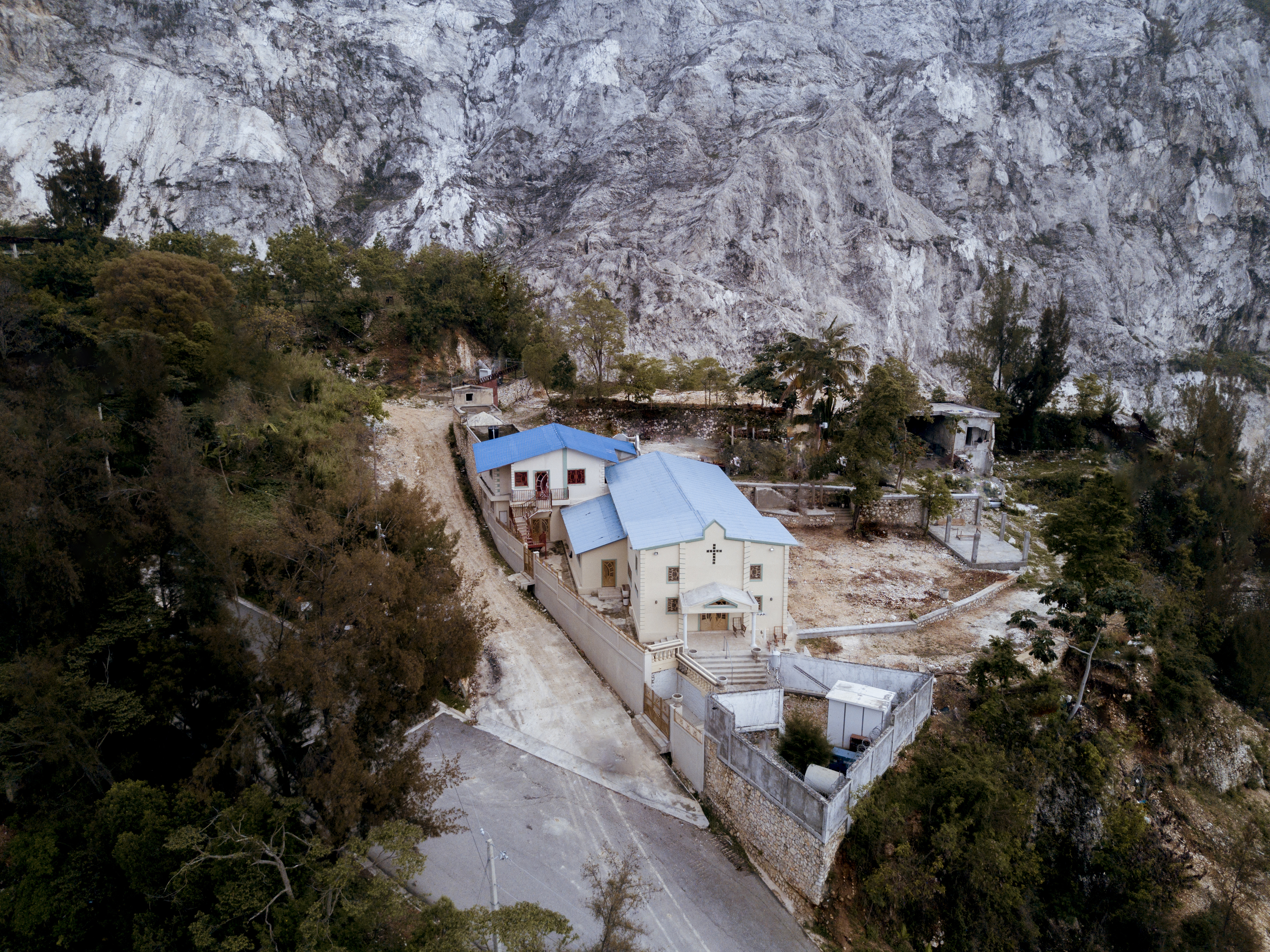 Ouest Department, Haiti